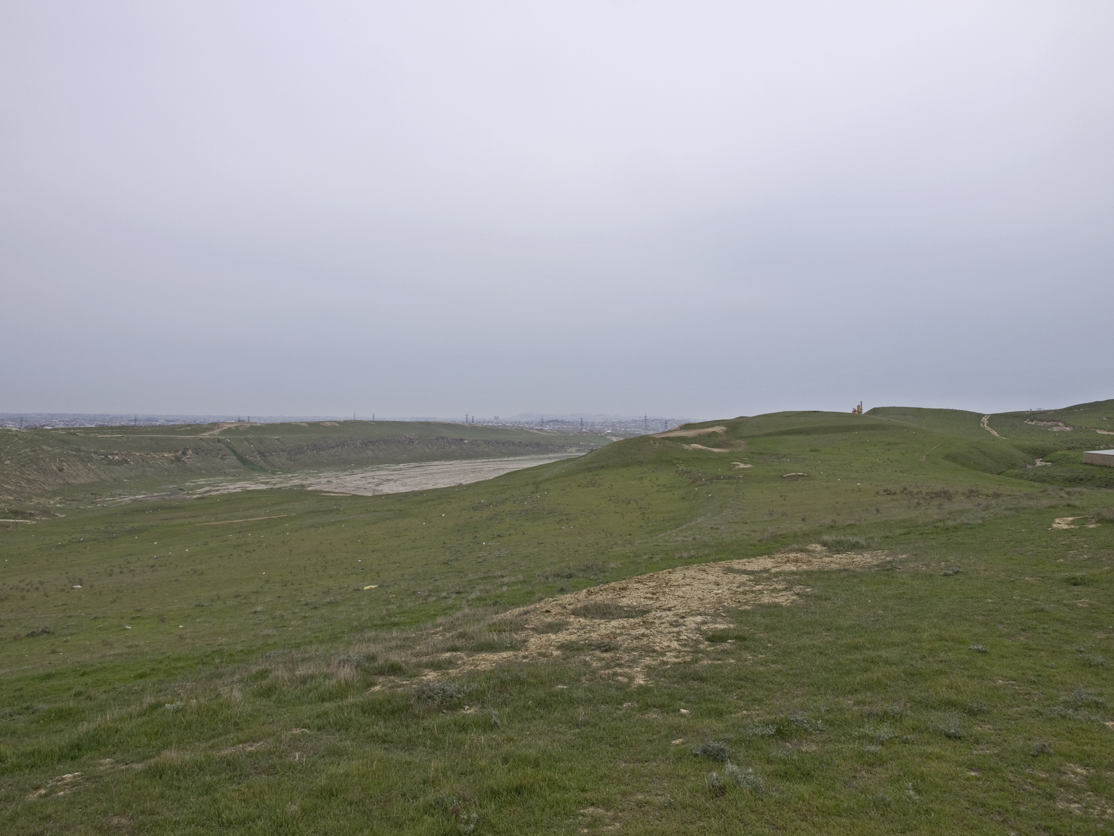 Hills seen from the top of Yanar Dag hill